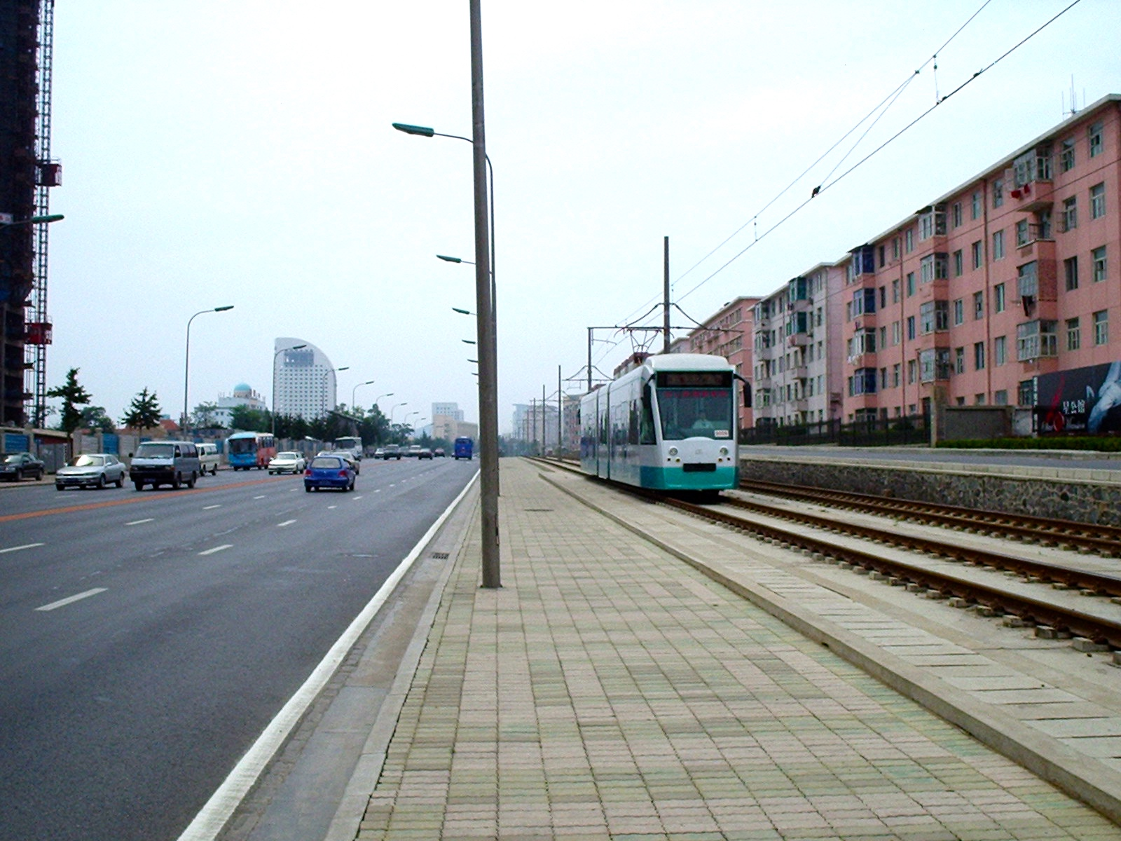 One of Dalian's modern trams (line 201) runs along the tracks near Xinghai Square.